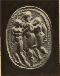 Etruscan engraved gem maybe with Laocoon and his sons. 4th/3rd century BC.